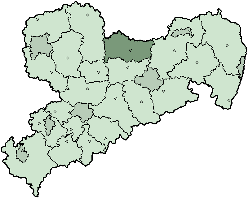 Map of the state Saxony in Germany before 2008, district Riesa-Großenhain highlighted.